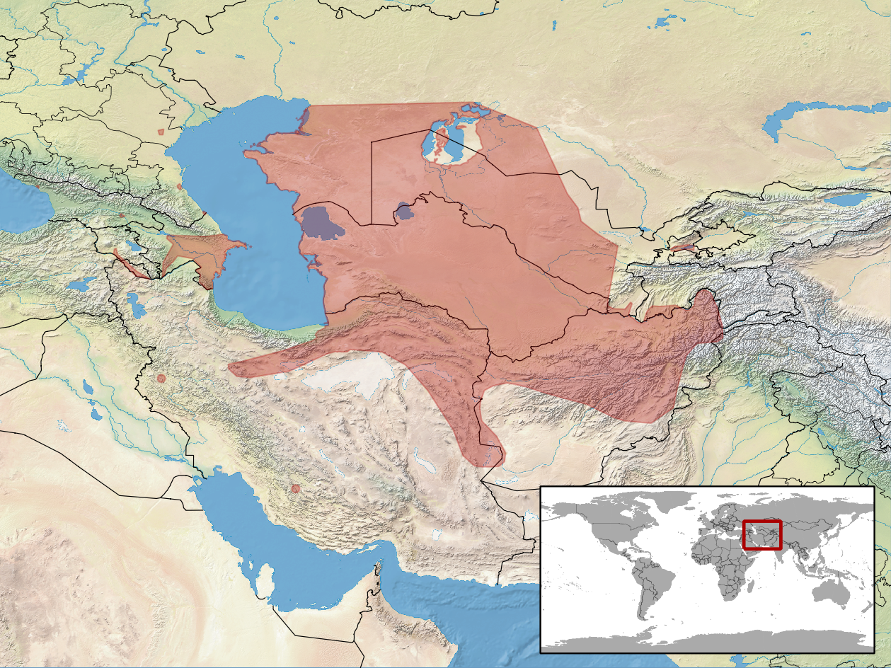 geographic distribution of Cyrtopodion caspium (Native: Afghanistan; Armenia (Armenia); Azerbaijan; Iran, Islamic Republic of; Kazakhstan; Russian Federation; Tajikistan; Turkmenistan; Uzbekistan / Introduced: Georgia)